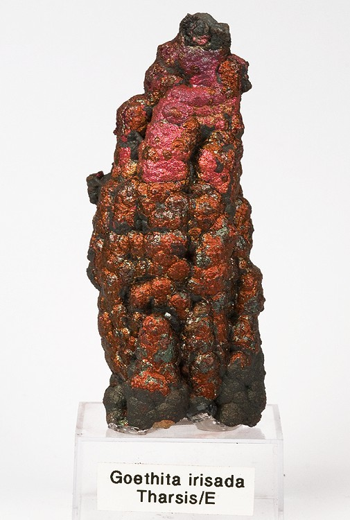 Goethite Locality: Filón Sur Mine, Tharsis, Alosno, Huelva, Andalusia, Spain (Locality at ) Size: 7.4 x 3.2 x 3.1 cm. From an incredible recent find, this amazingly iridescent and colorful goethite, which formed stalactitically, has botryoidal form on the surface which reflects its pink, red, gold, orange and other colors in every direction. Even the black goethite botryoids are silvery bright. An uncommonly colorful and beautiful form of a common mineral.